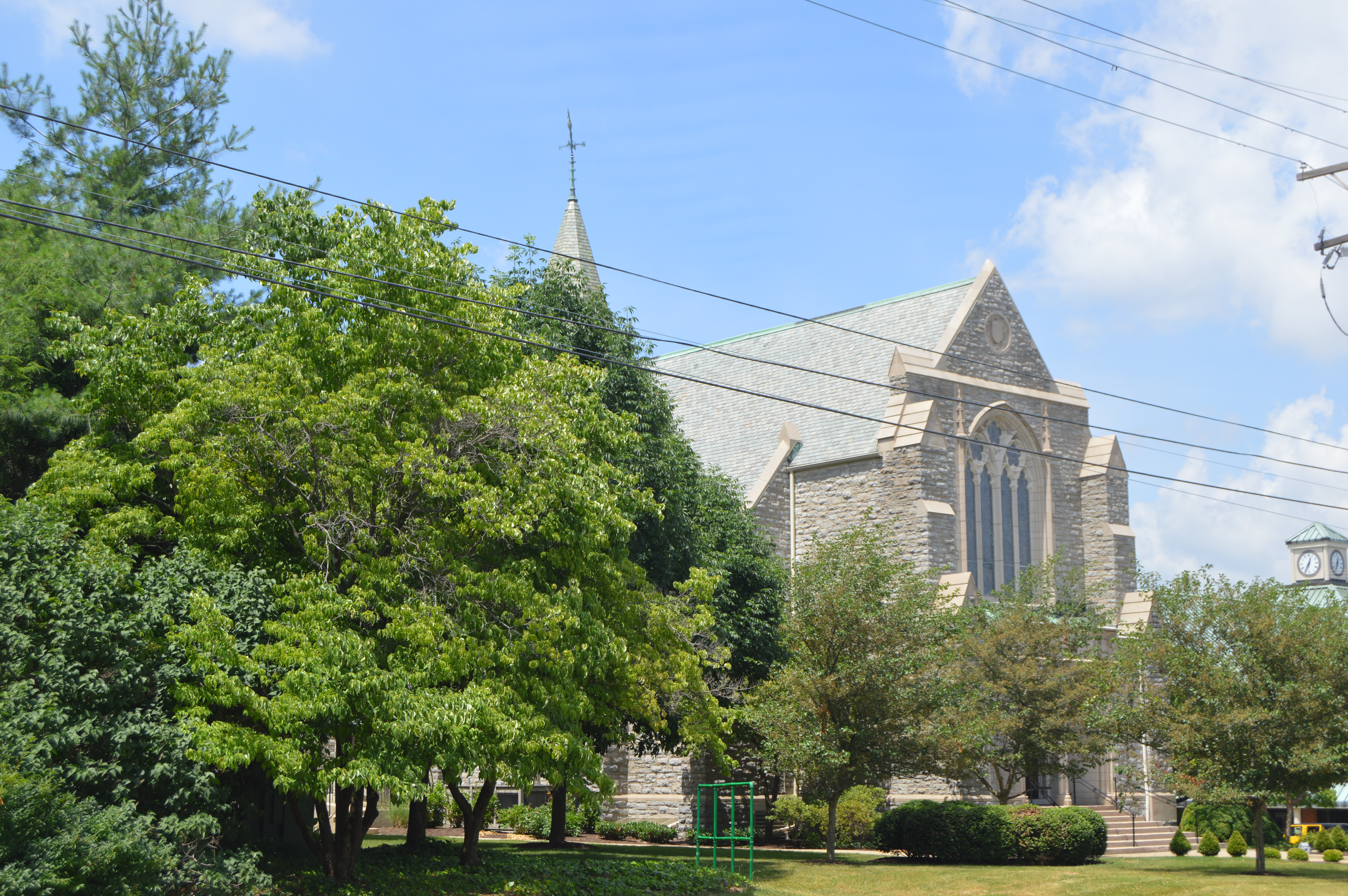 Front of Second Presbyterian Church, located at 460 E. Main Street (U.S. Routes 25/421) in Lexington, Kentucky, United States. Built in 1922, it is listed on the National Register of Historic Places.